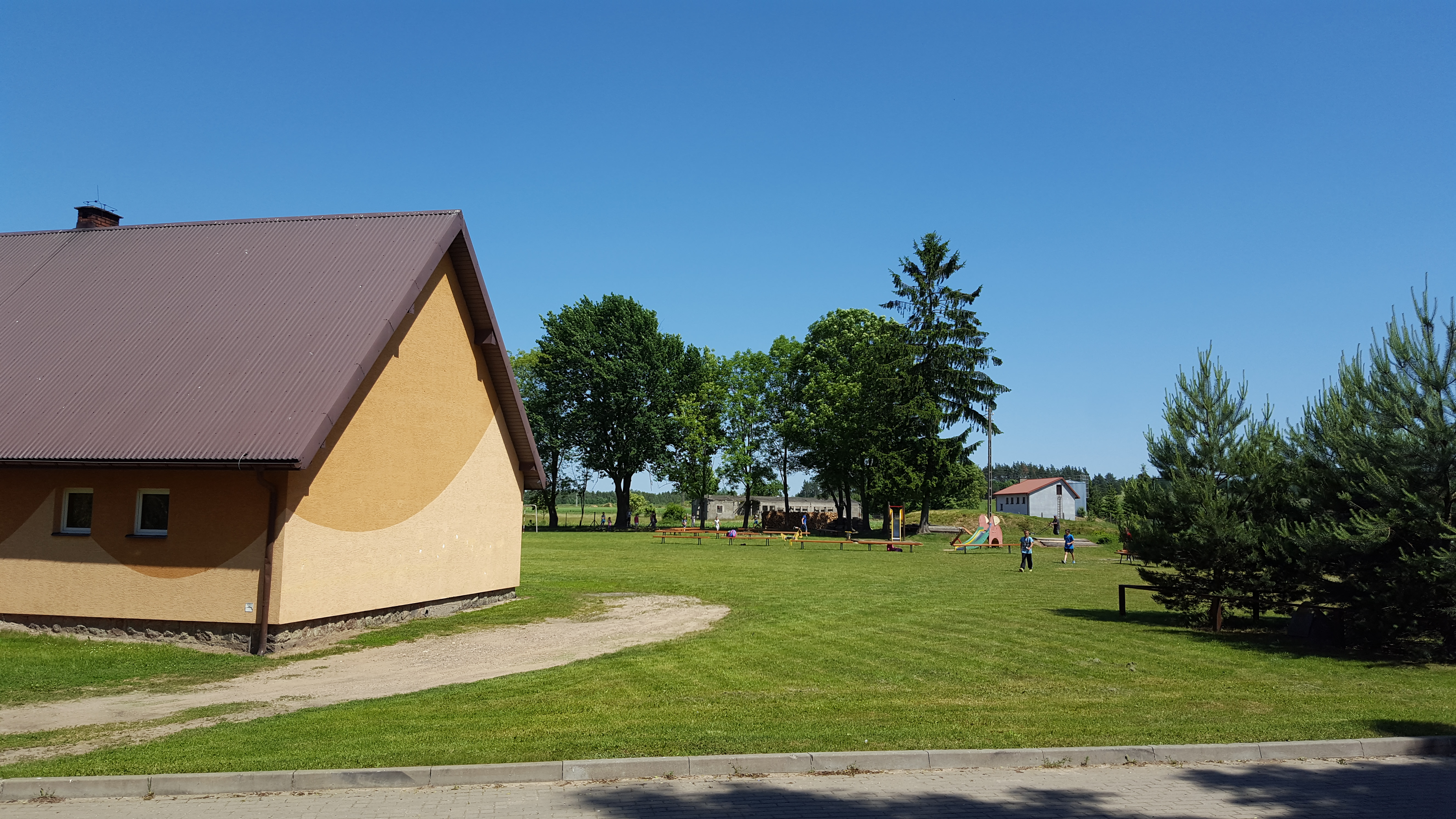 Summer in Występ, Warmian-Masurian Voivodsteship